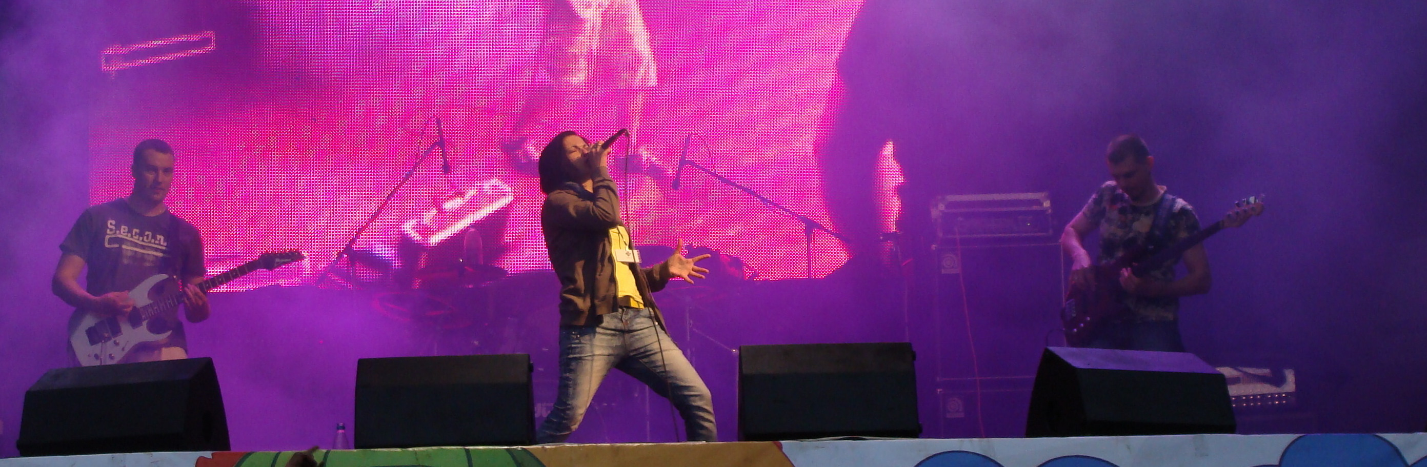 niagAra band during their appearance in the Fort.Missia festival 2011.